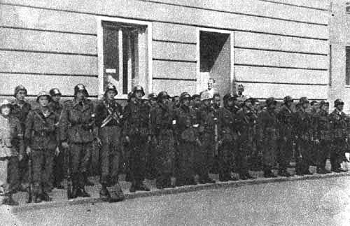 Warsaw Uprising: a platoon of III "Konrad" Regiment, part of "Krybar" Regiment fighting in Powiśle district.